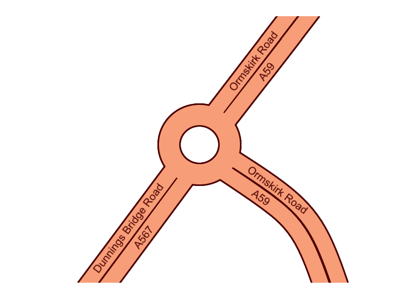 The first roundabout to be constructed which would later become Switch Island, linking the A59 road to what was then the A567 road.